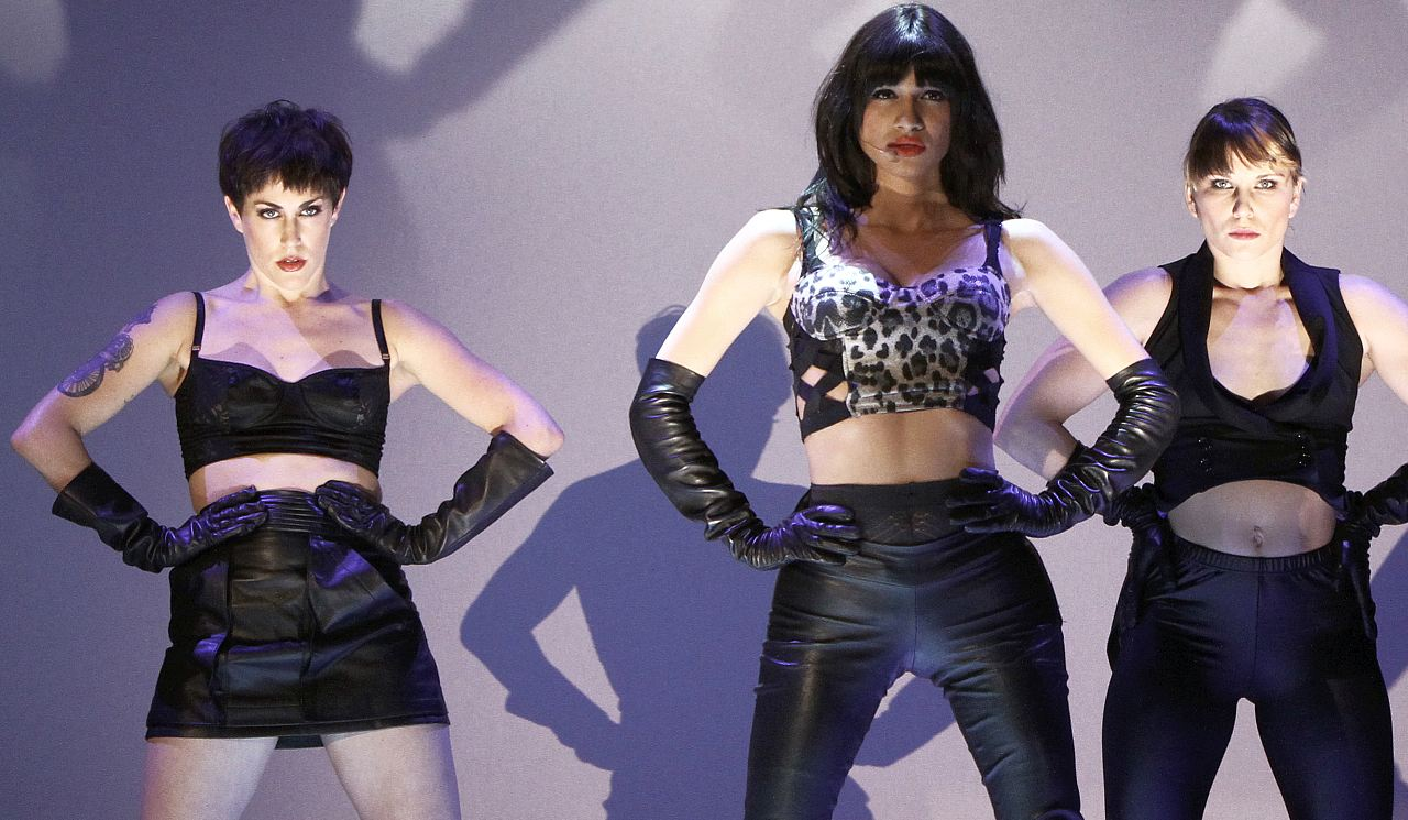 Jessica 6 @ MICHALSKY StyleNite